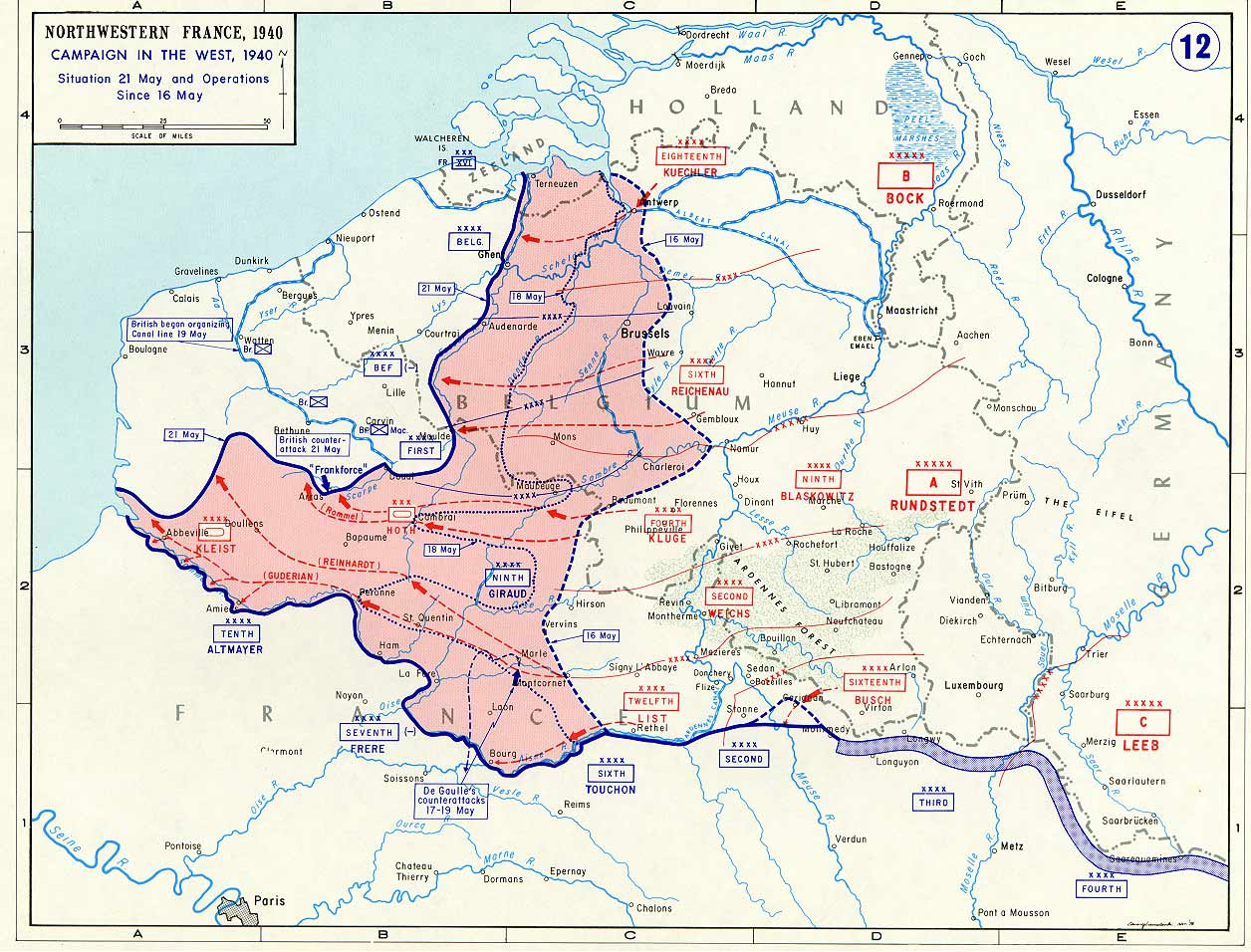 German offensive in Belgium at 1940 (World war II.)